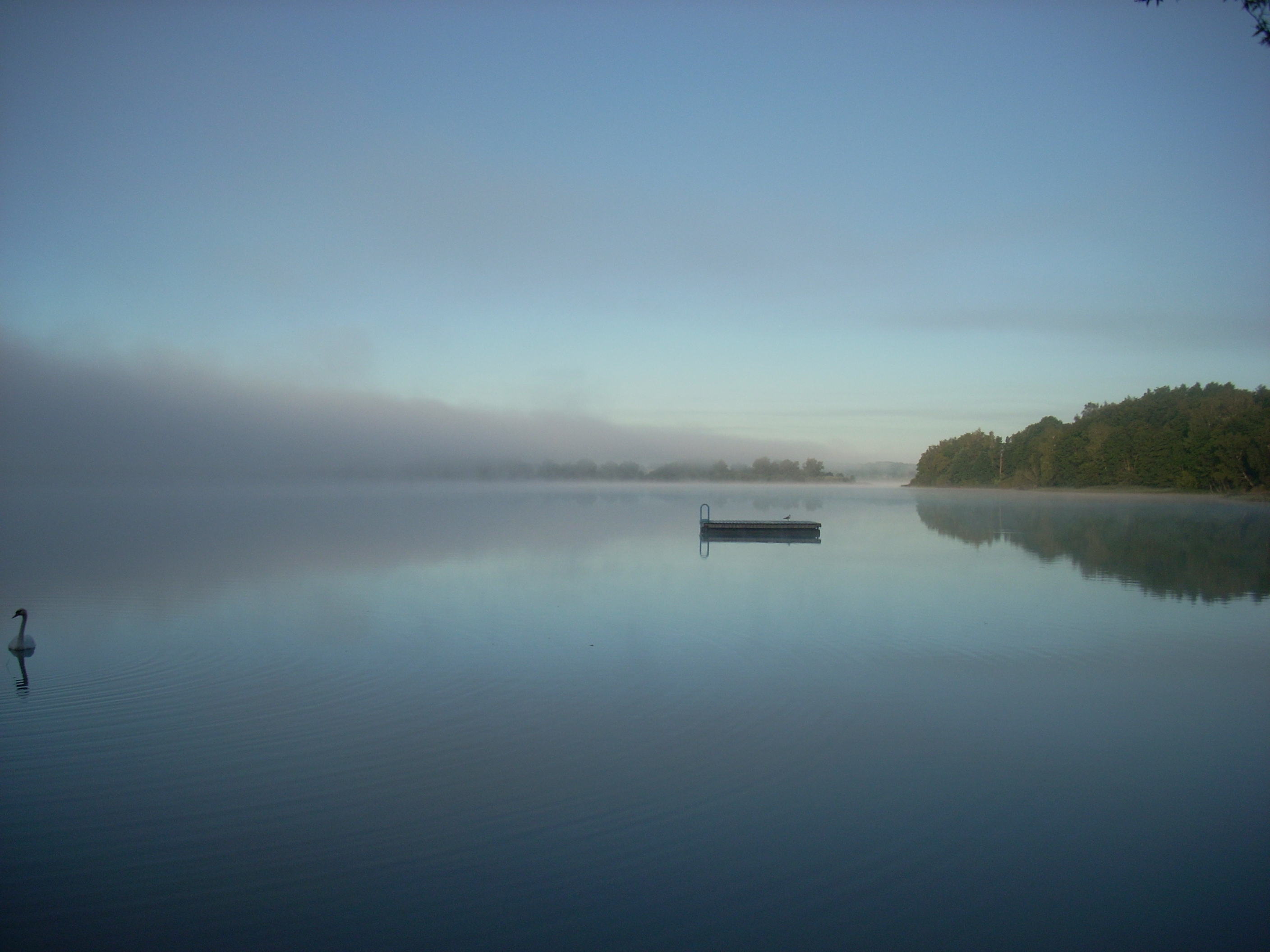 view over the lake Dobbertiner See